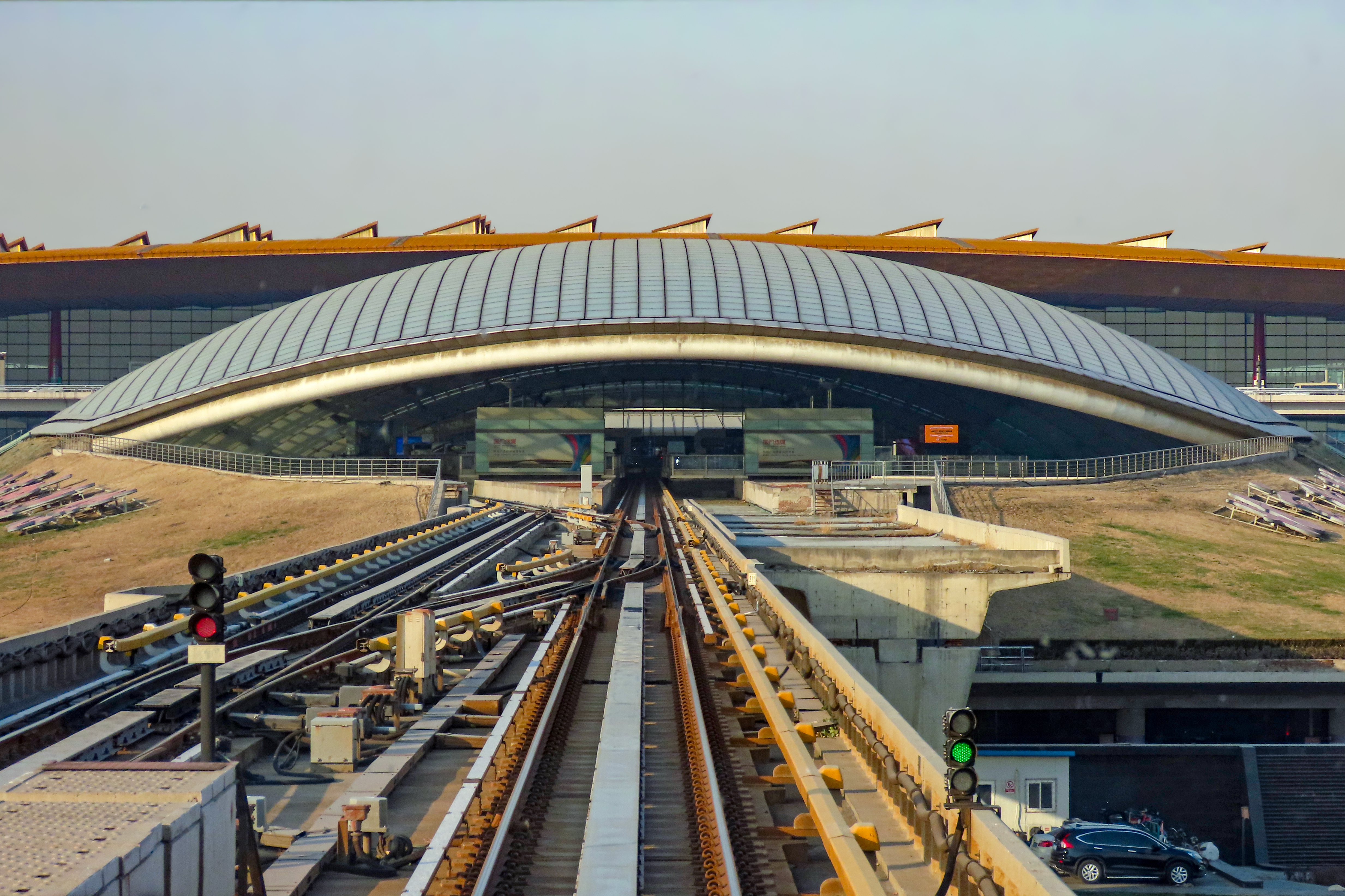 Beijing Metro's Terminal 3 station. Some people call it "turtle shell".